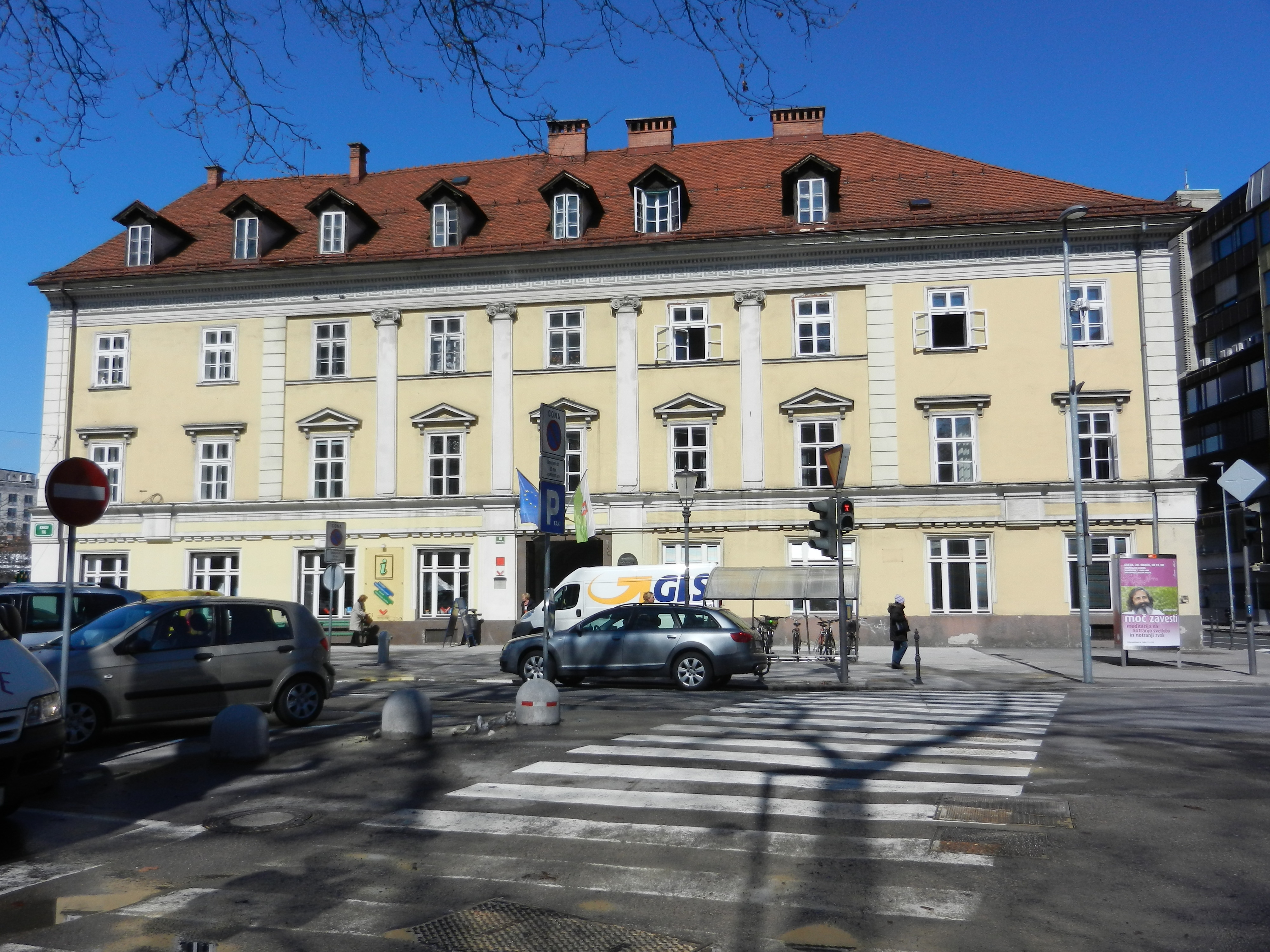 Mahr House in Ljubljana. It housed a hotel (in the first half of the 19th century) and a trade school (in the second half of the 19th century and the beginning of the 20the century).